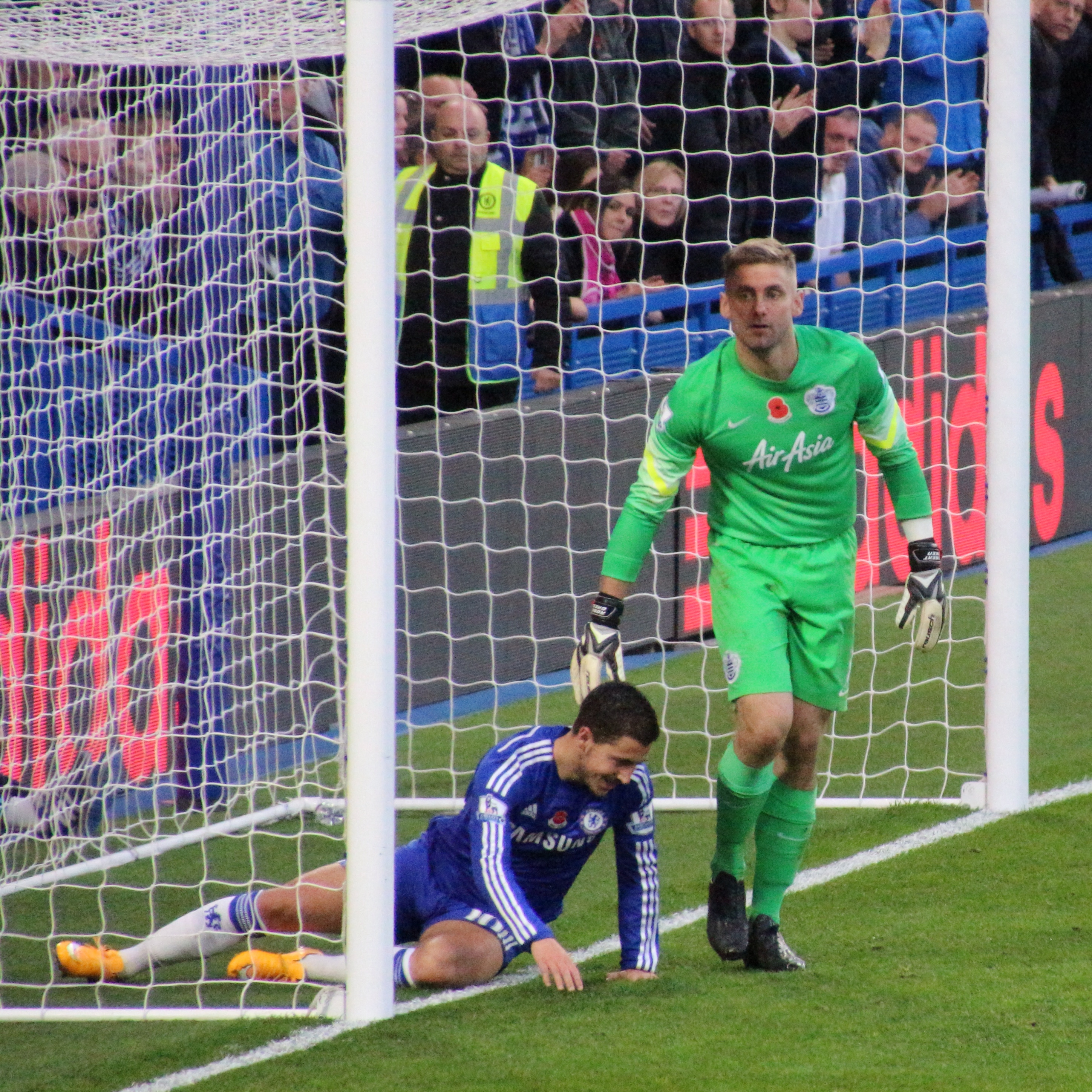 Chelsea 2 QPR 1 Premier League match between Chelsea and Queens Park Rangers at Stamford Bridge on 1 November 2014.